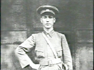 Chiang Kai-shek in uniform